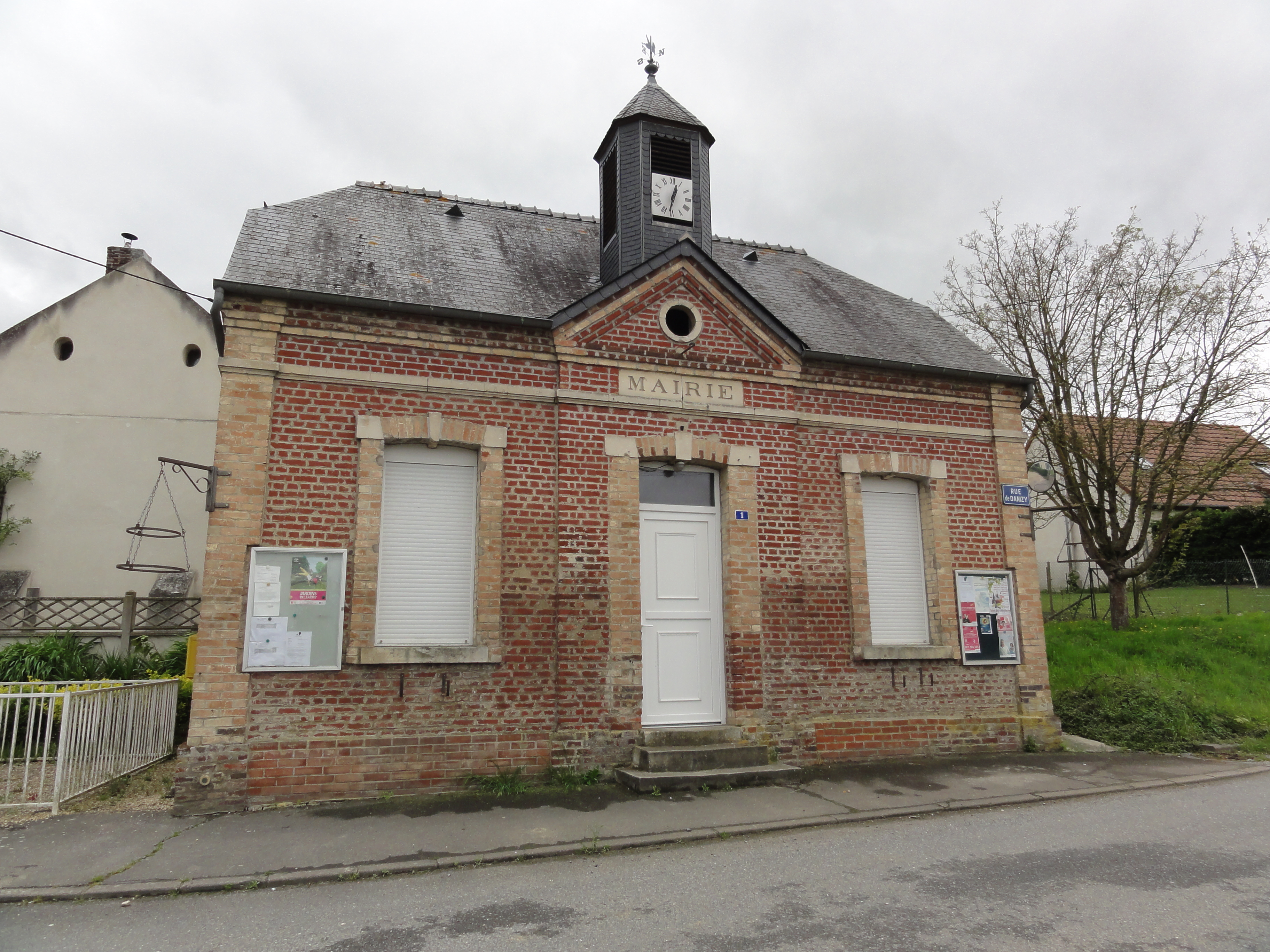 Rogécourt (Aisne) mairie